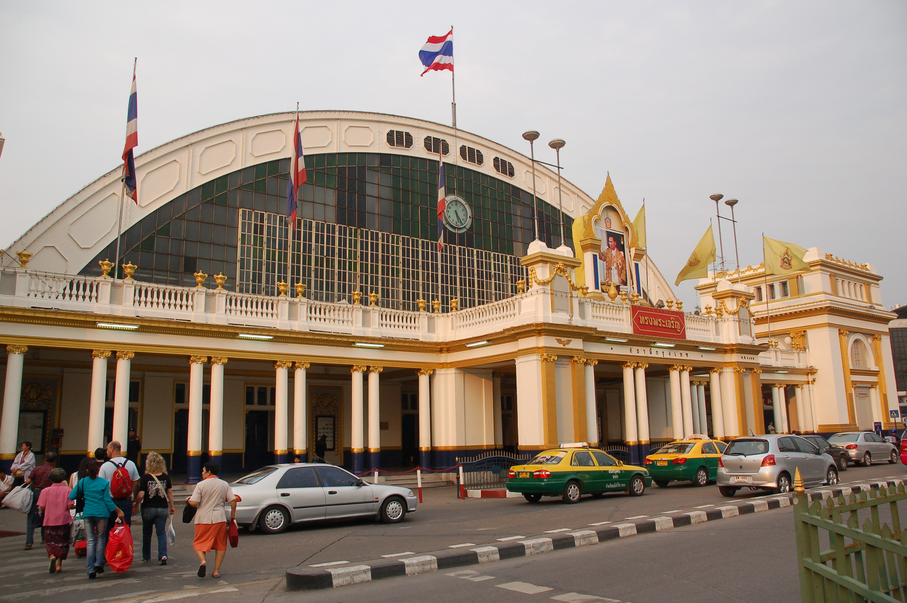 Hualamphong railway station, with recently-painted new colors, sponsored by TOA Paints co.